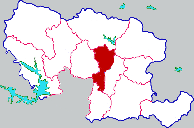 Location of Wolong district in Nanyang city, China